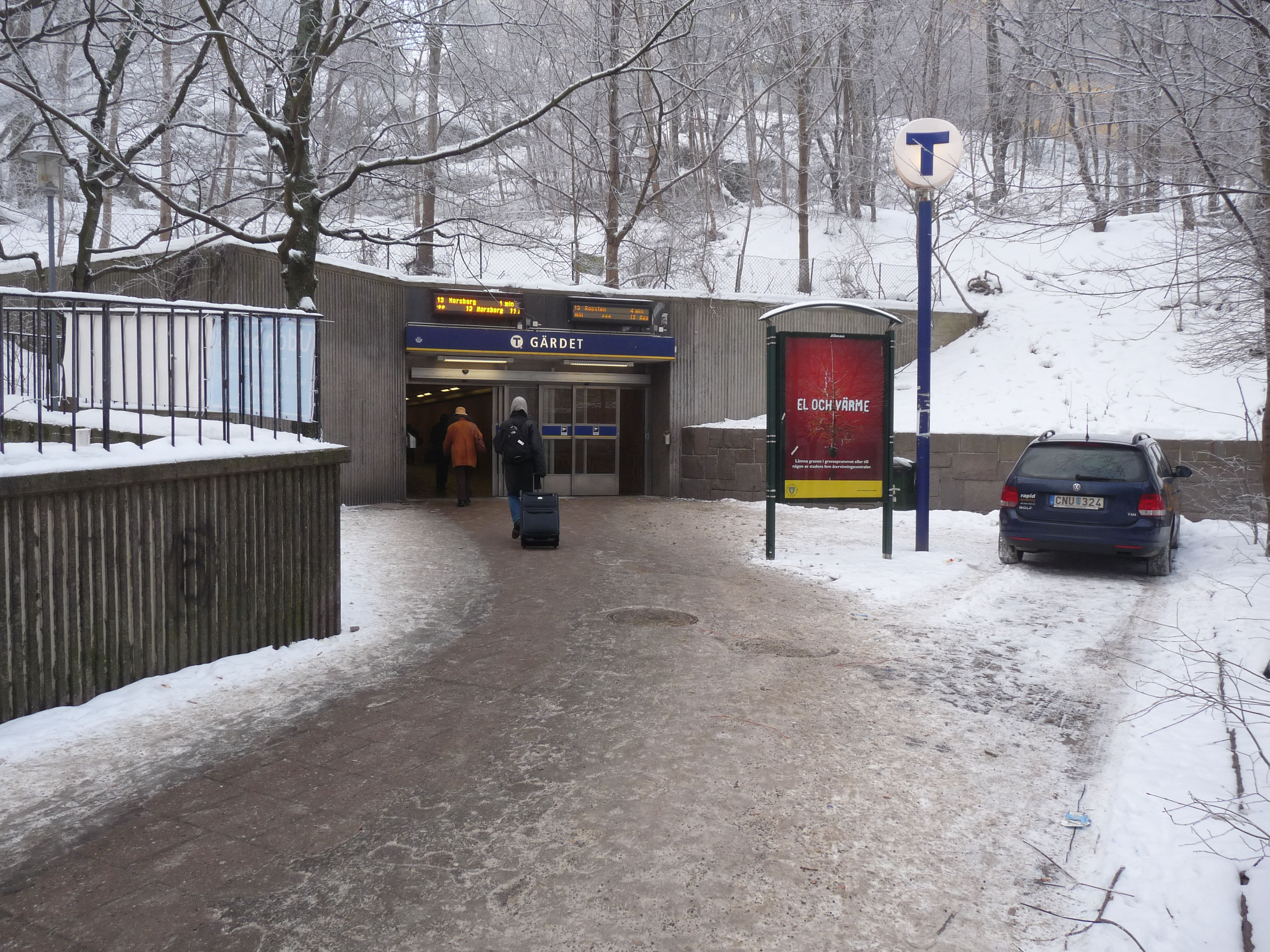 Gärdet metro station